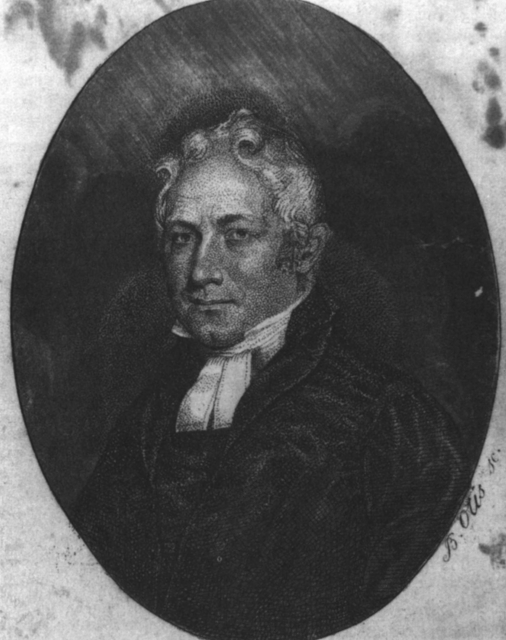 Portrait of Abner Kneeland